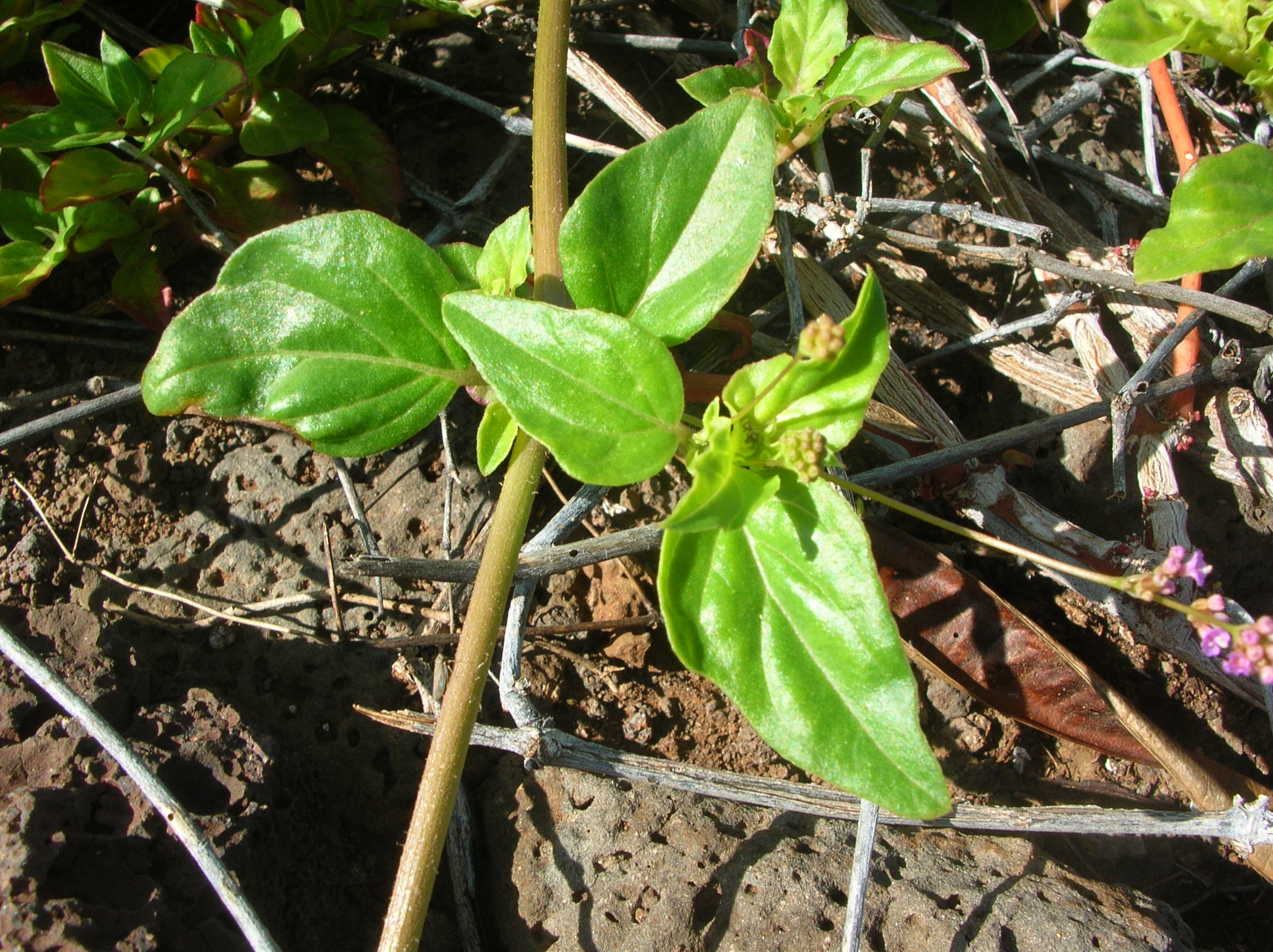 Boerhavia acutifolia (leaves and flowers). Location: Lanai, Kiei